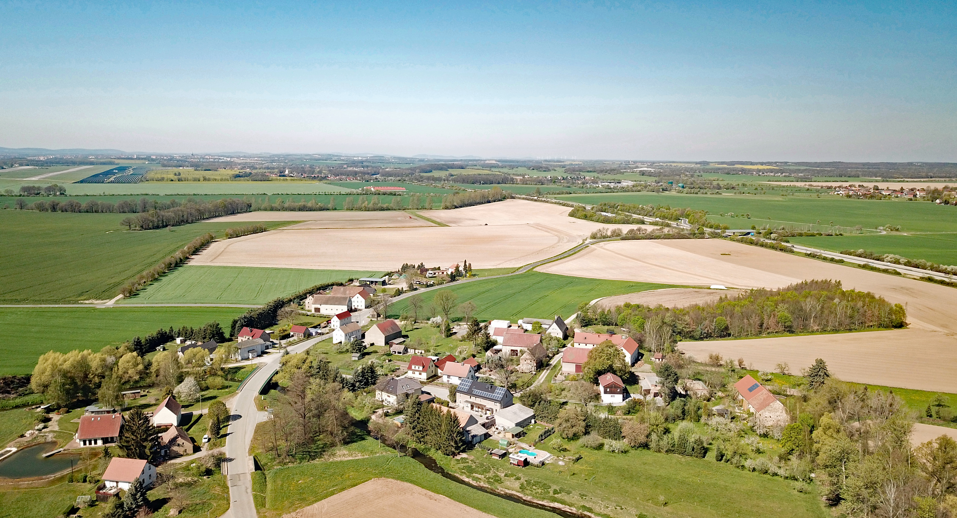 Cannewitz, Malschwitz, Saxony, Germany Hornjoserbsce: Powětrowy wobraz Skanec Dieses Foto wurde mit einem Quadcopter innerhalb der RMZ des Flugplatzes EDAB aufgenommen. Der Flugleiter wurde am Aufnahmetag telephonisch über Ort und Zeit informiert und hat zugestimmt. Der Flug erfolgte auf Grundlage der Allgemeinverfügung der Landesdirektion Sachsen zur Erteilung der Betriebserlaubnis für unbemannte Luftfahrtsysteme und Flugmodelle gemäß § 21a LuftVO und Zulassung von Ausnahmen von Betriebsverboten gemäß § 21b LuftVO für den Freistaat Sachsen.